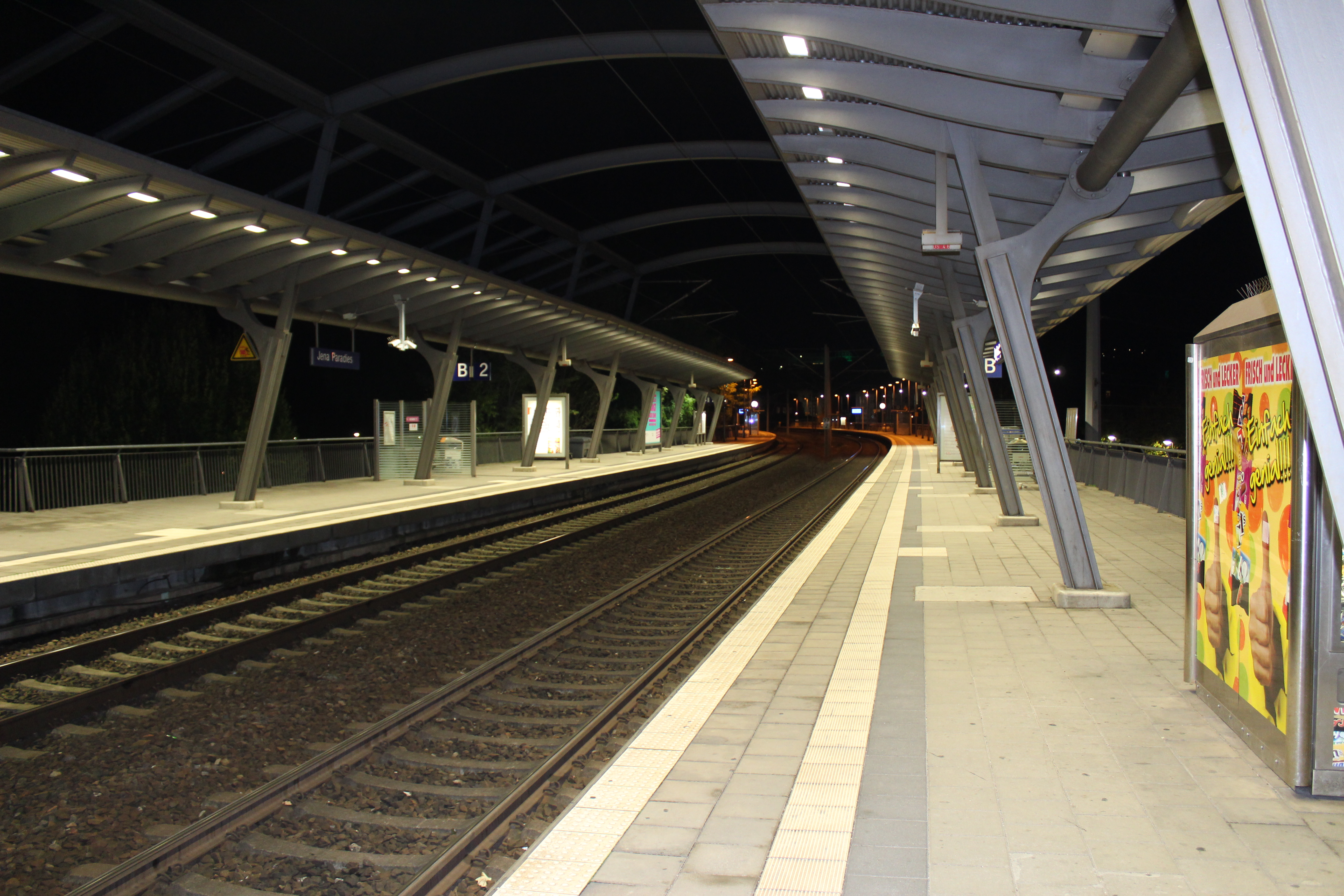 train station Jena Paradies, platforms